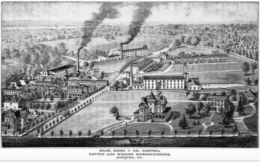 Image of Powhattan Mills in Chester, Pennsylvania from Ashmead's "History of Delaware County, Pennsylvania" published in 1884